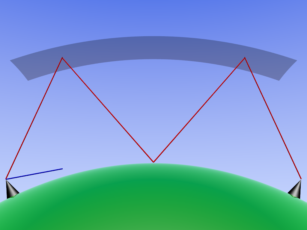 Schematic of wave propagation by ground and sky wave